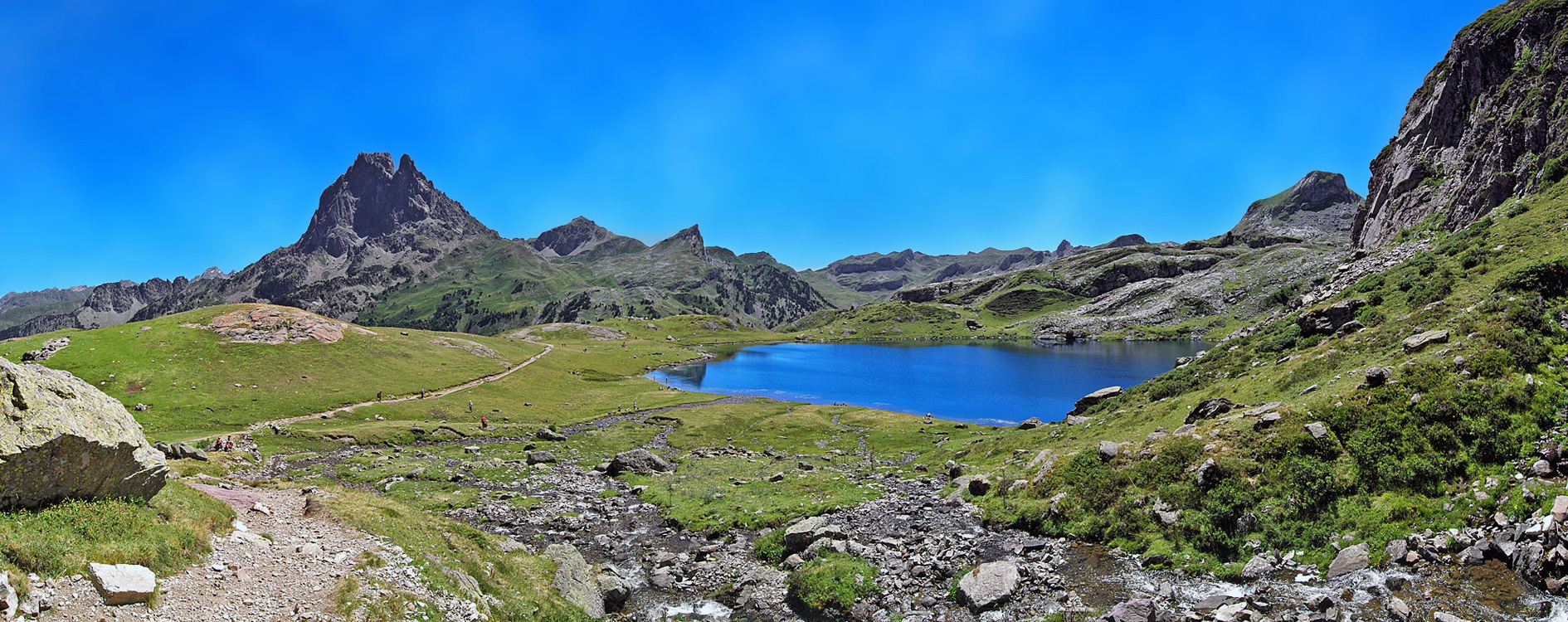 The lakes of Ayous (Roumassot Lake, Gentau lake, Bersau lake) are in the Atlantic Pyrenees within the National Park of the Pyrenees, France. Its access from the lake Bious Artigues is realised by two footpaths good signalized in two types of routes, a circulate of 6 hours and another linear to the Gentau lake of 4 hours. From these alpine prairies up to more than 2000 meters of altitude, the view of the majestic Pic du Midi d' Ossau is really impressive.